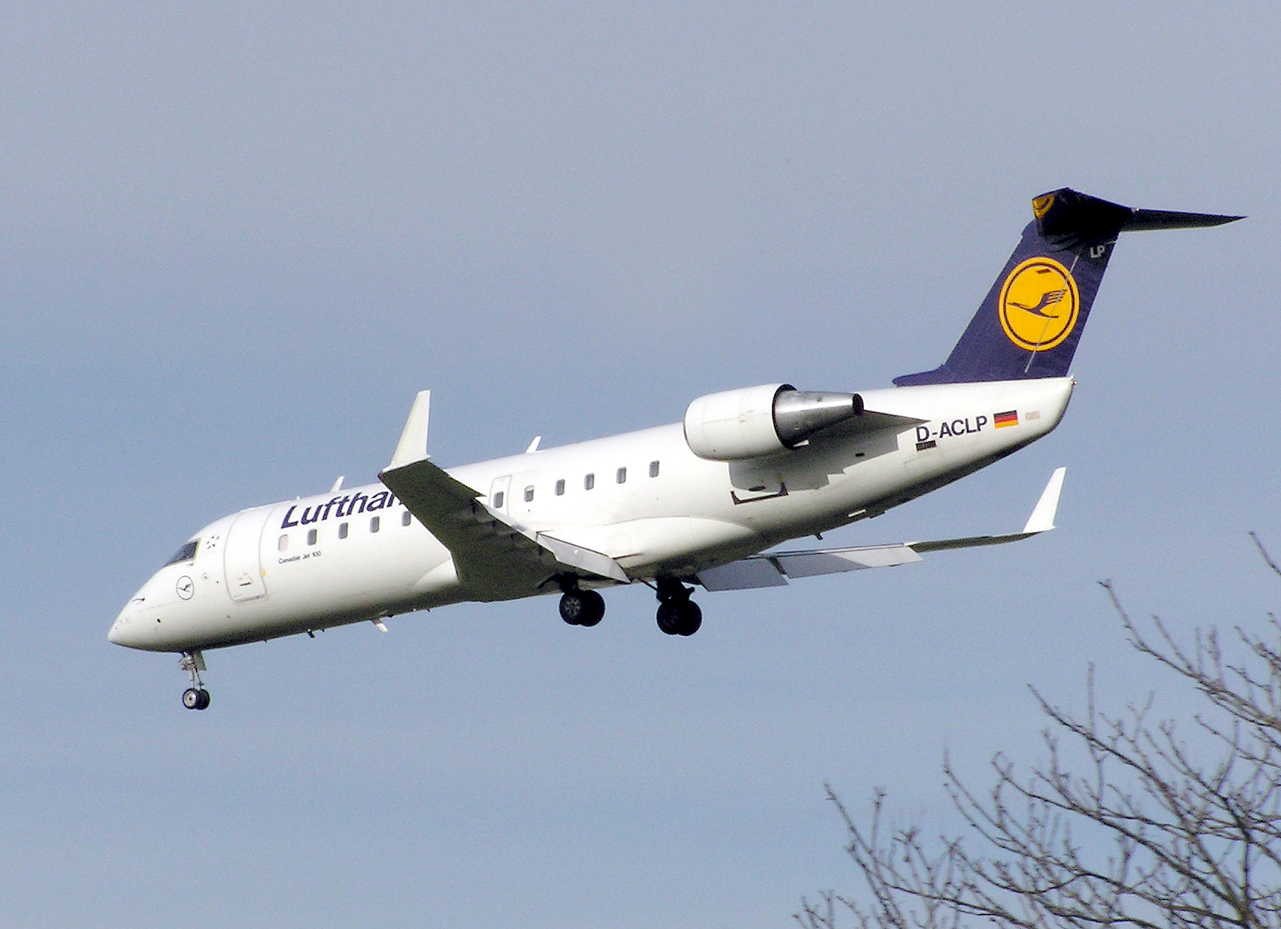 Lufthansa CityLine Canadair CL-600-2B19 regional jet (CRJ-100) (D-ACLP) landing at London Heathrow Airport, England. The inscription on the nose says “Canadair Jet 100”. Photographed by Adrian Pingstone in November 2005 and released to the public domain.